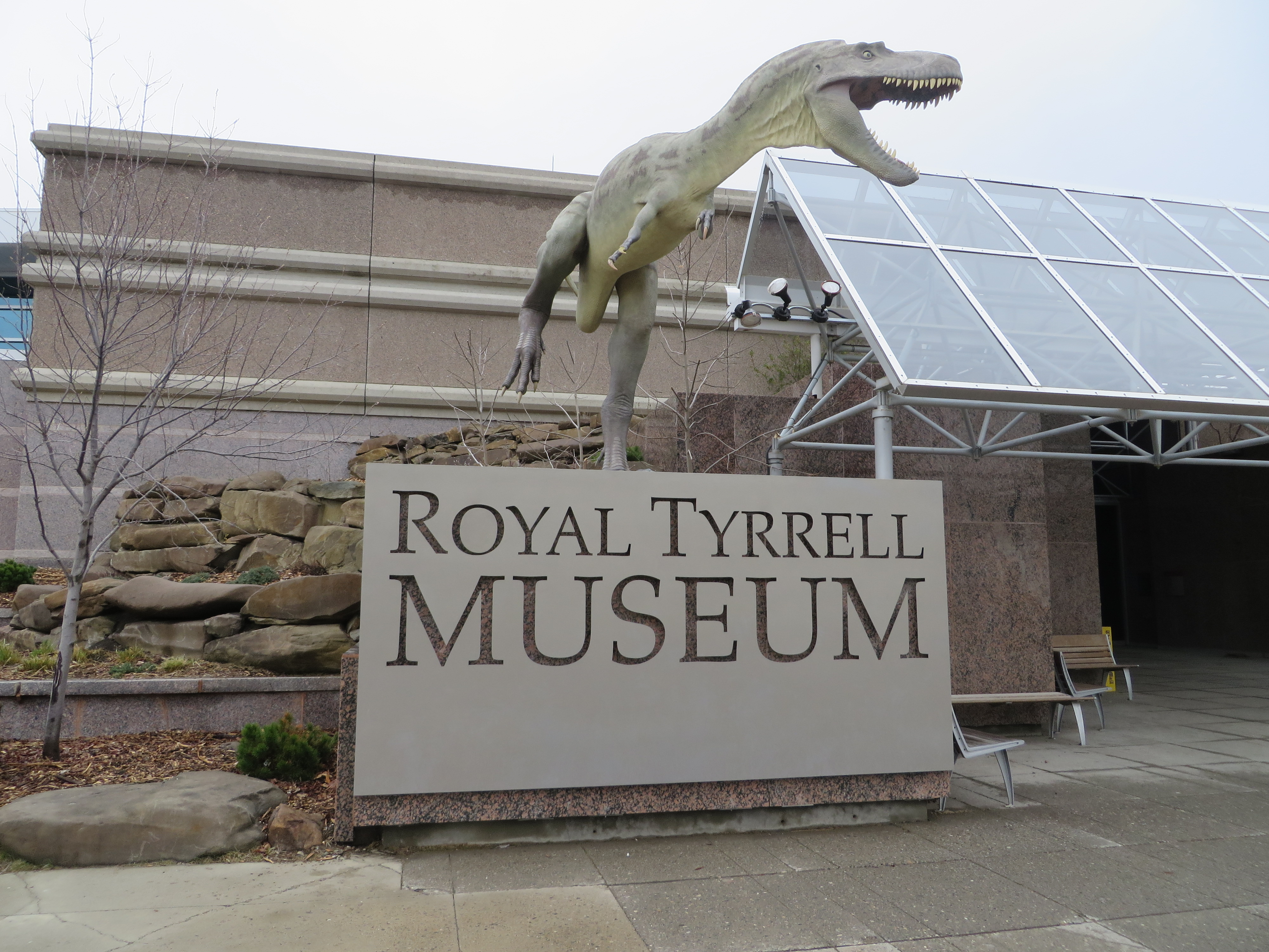 Royal Tyrrell Museum in Drumheller, a town in Alberta, Canada.